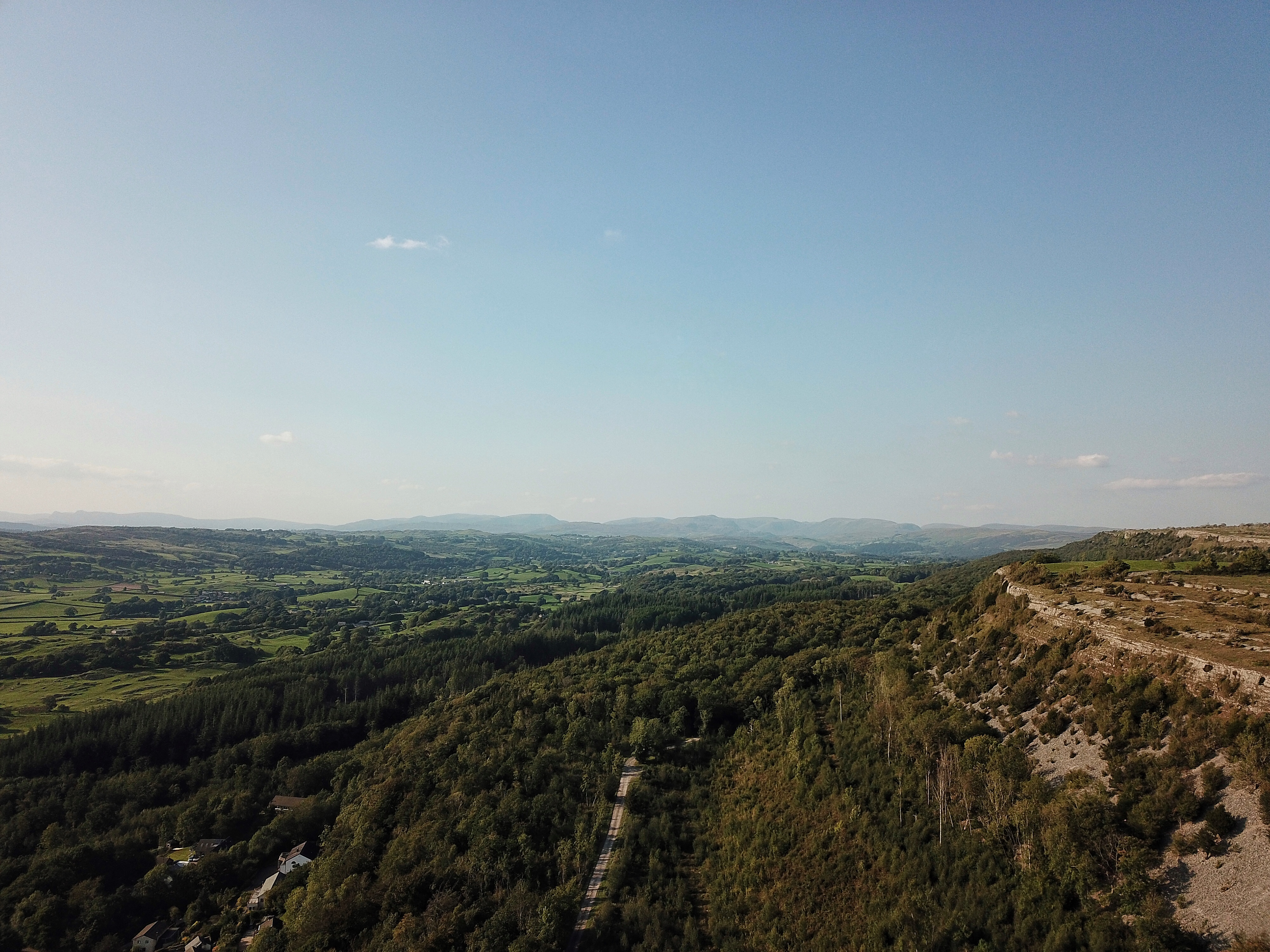 View of the the myth valley looking north towards the Cumbrian Mountains. Scouts scar is visible on the left of the photograph.